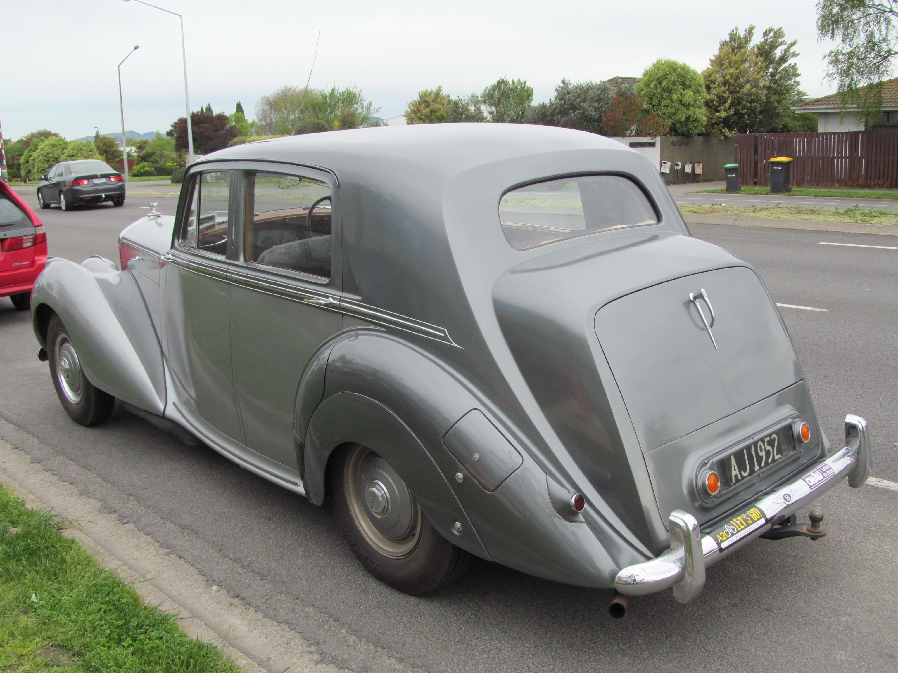 Not sure how often this is used, because it is in wonderful condition but looks like it could be used as infrequent transport for someone. Either way, a very suave way to travel!